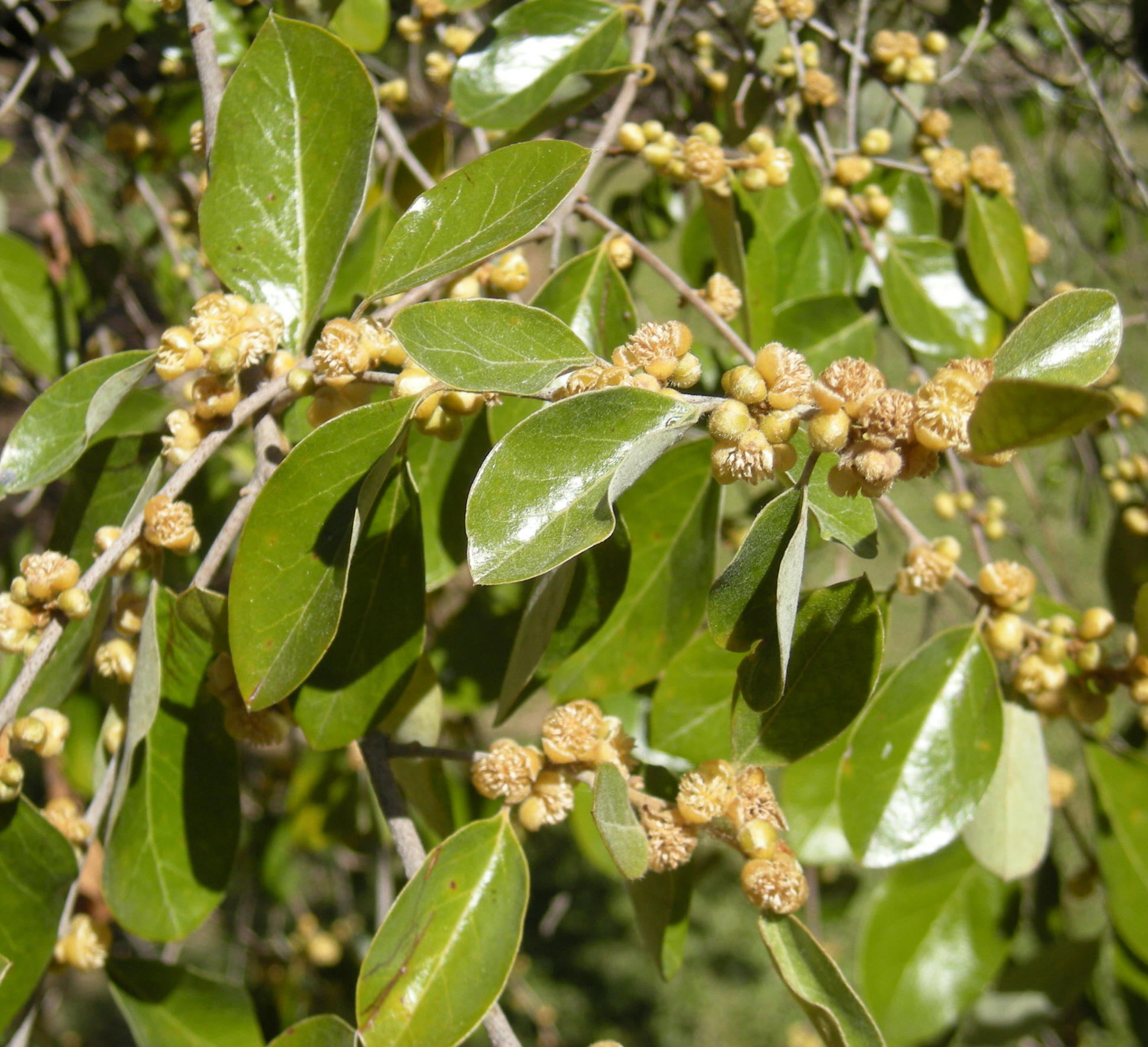 Petalostigma pubescens foliage and flowers, Mount Archer National Park, Rockhampton